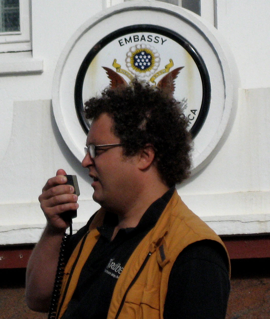 Stefan Palsson